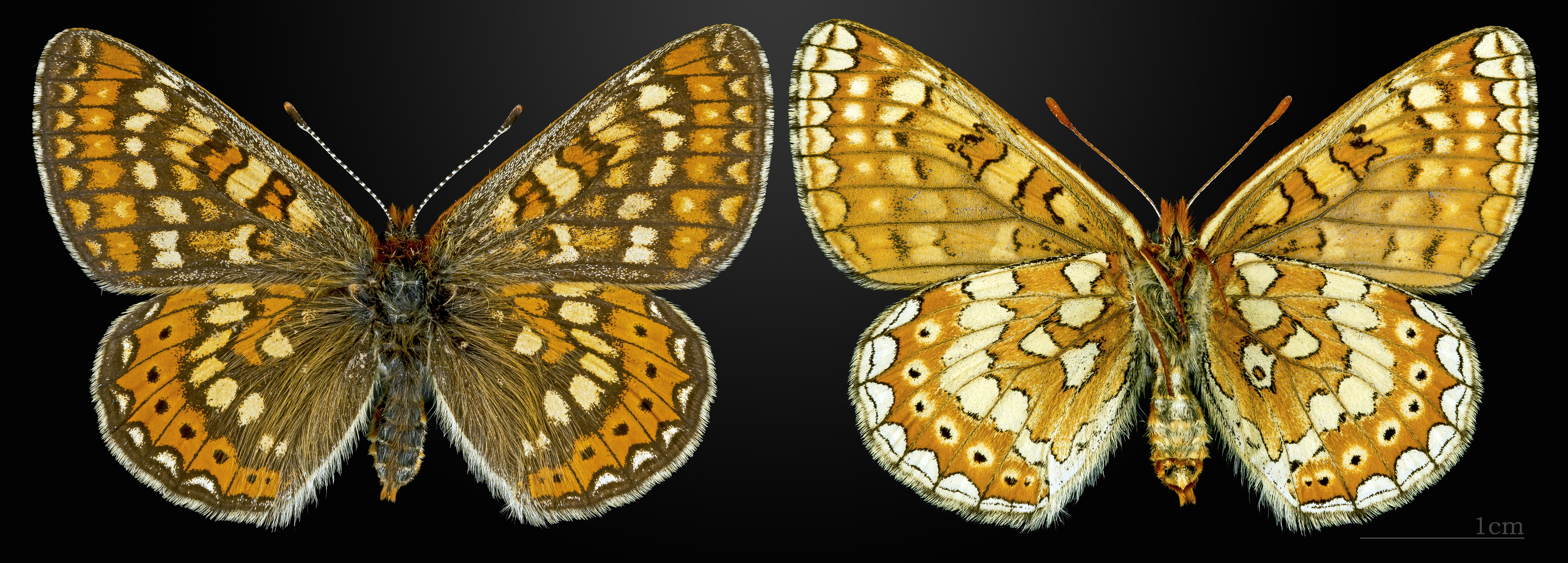 Marsh fritillary - Two views of same specimen Locality: Clermont-le-Fort, Haute-Garonne, France